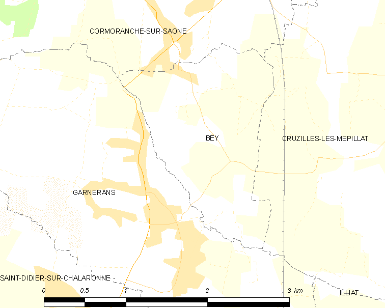 Map of French commune: Bey Map commune FR insee code 01042.png